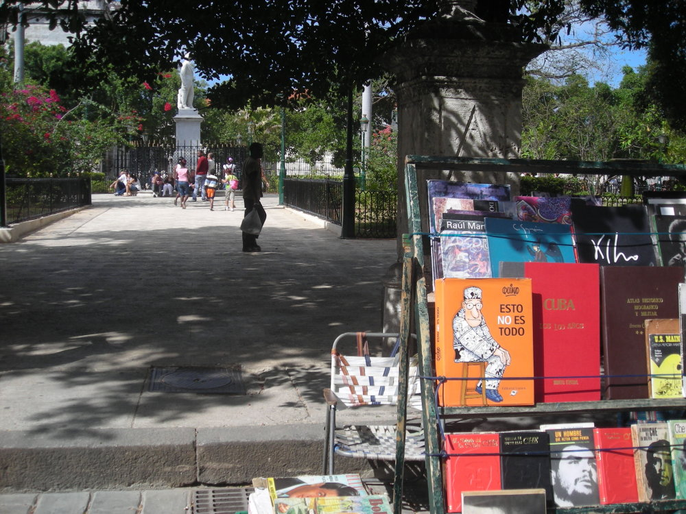 Book of Quino in a street market of a park in Havana, Cuba